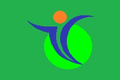 Flag of Shichinohe Aomori